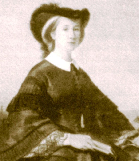 Fürstin Katharina Orloff